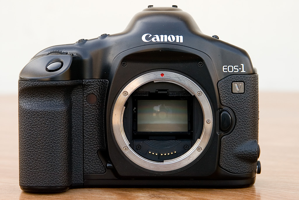 Canon EOS 1v camera body. My most favorite 35mm film single lens reflex camera, until I went digital. Now it is in my collection of cameras.